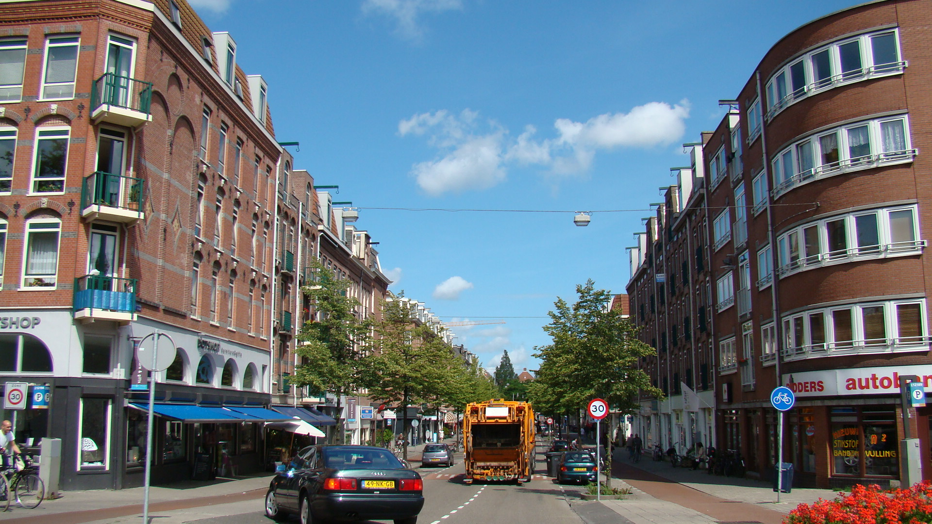 Jan Pieter Heijestraat Amsterdam. Netherlands